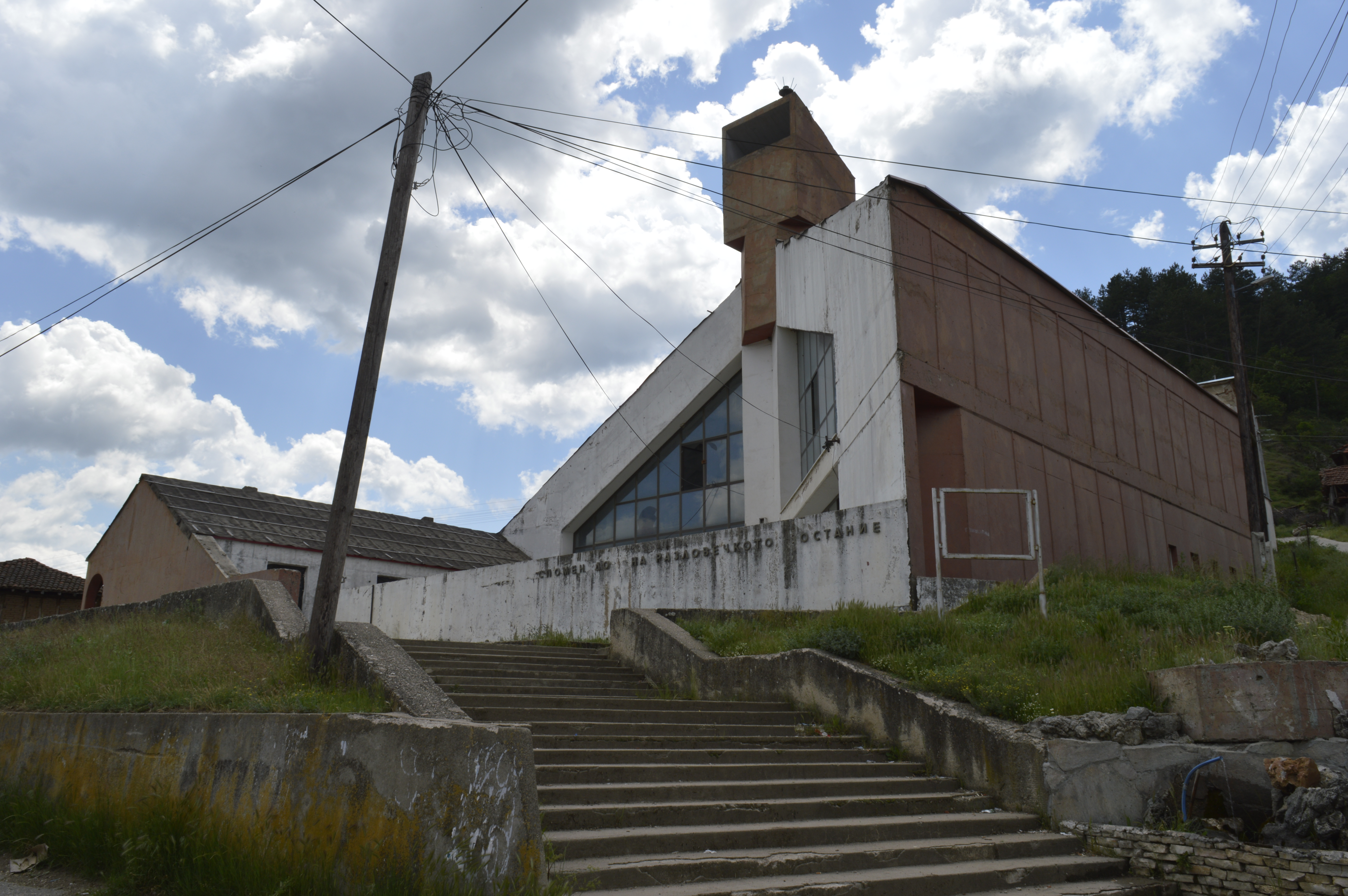 Memorial House of Razlovci Uprising in the village Razlovci